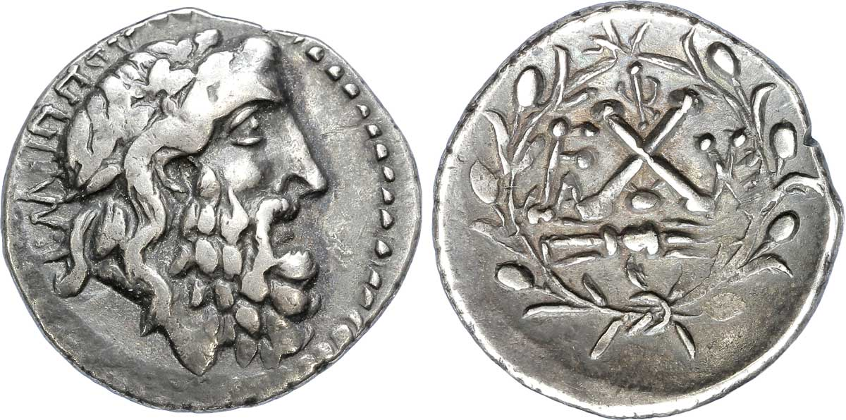 Hemidrachme de la ligue achéenne à l'effigie de Zeus Date : c. 40-30 AC.